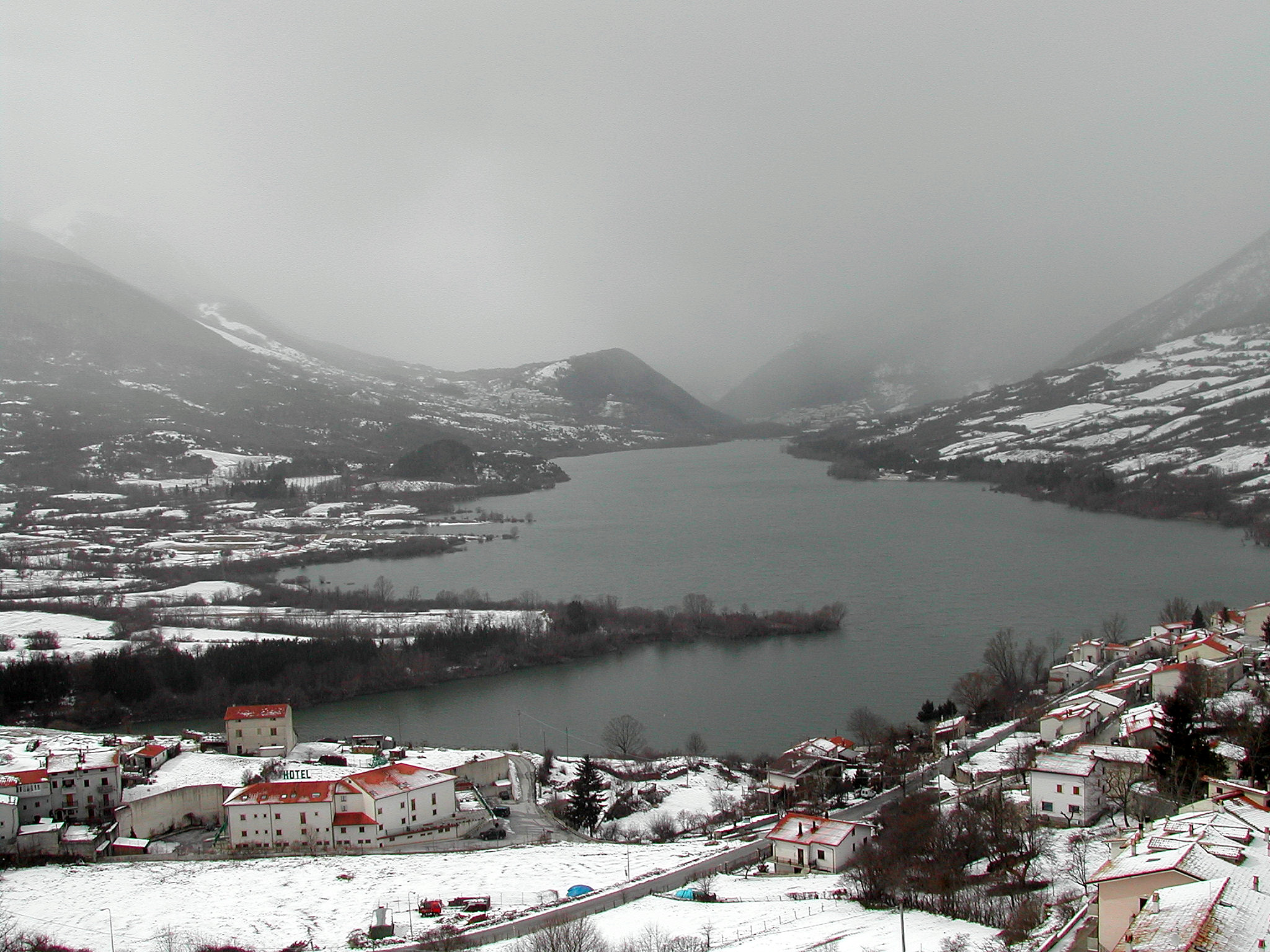 Barrea Lake (Abruzzo, Italy) in winter, view from Villetta Barrea